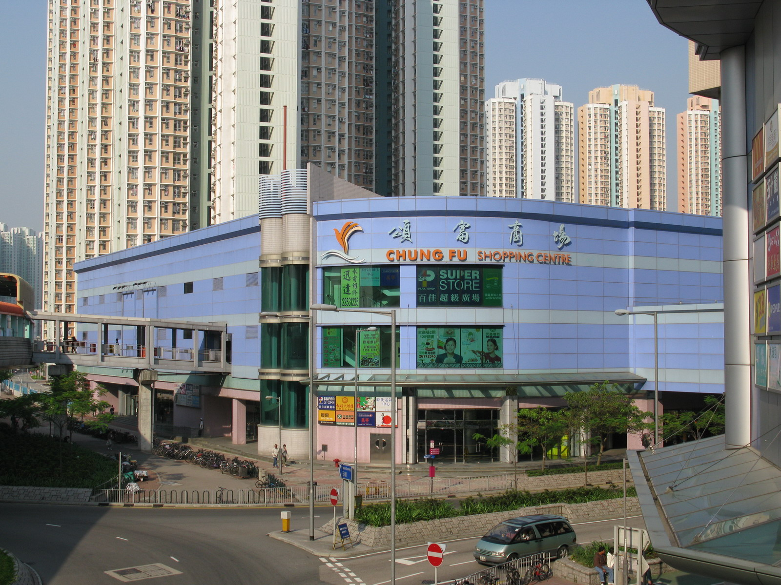 頌富商場二期 Chung Fu Shopping Centre Phase 2